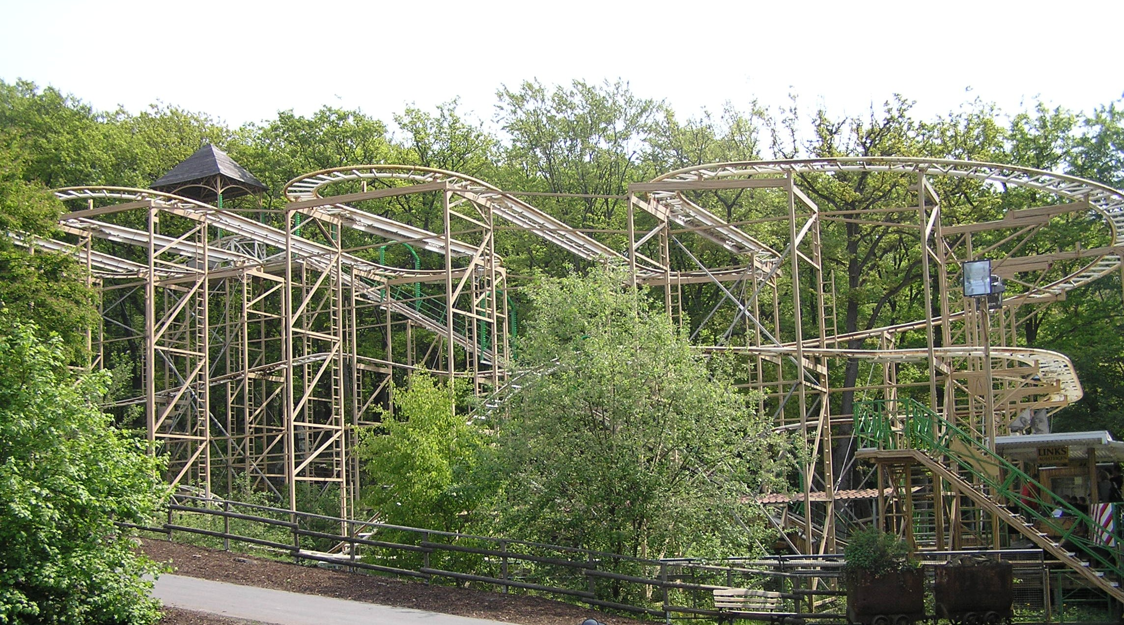 Roller coaster in the "Taunus-Wunderland" amusement park in Schlangenbad, Hesse, Germany